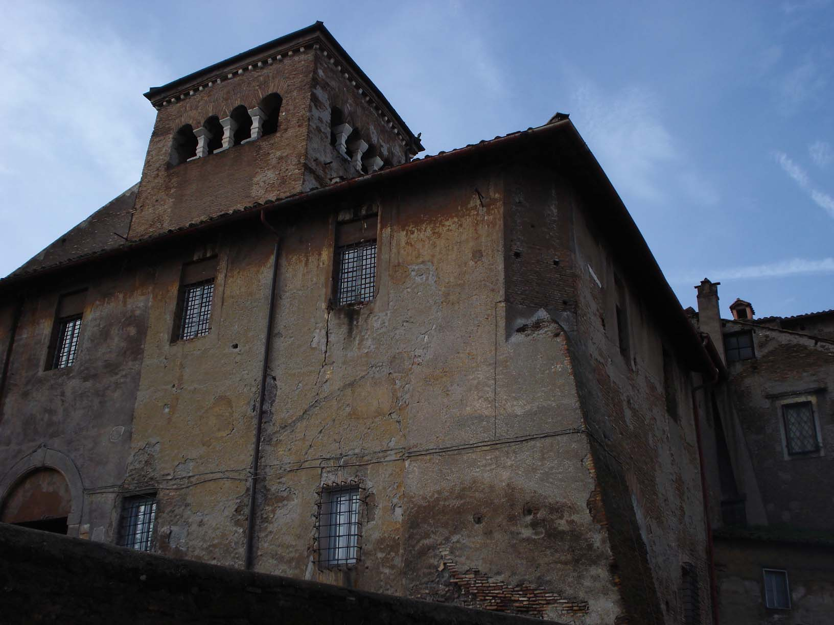 Entrance and Leo IV's Tower - sight from via S.Quattro Coronati